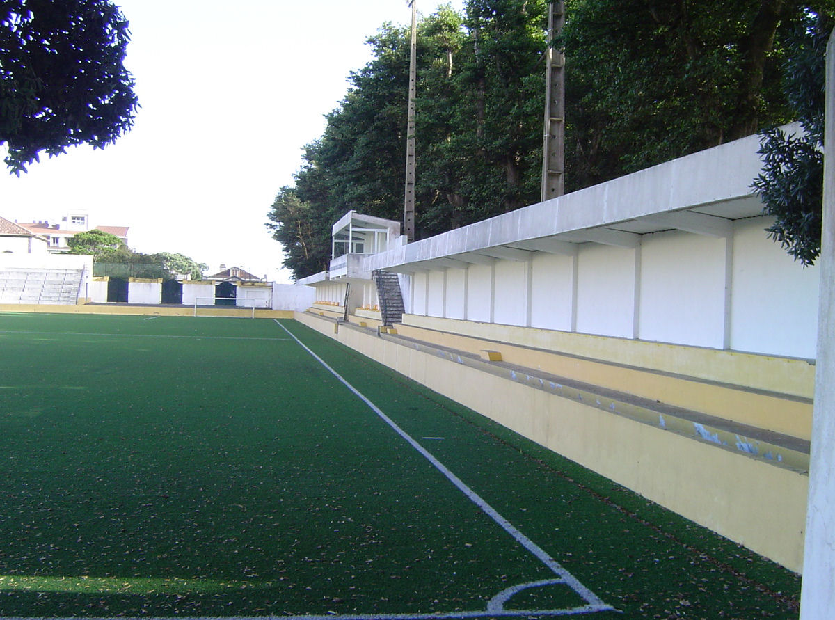 Campo Municipal Jâcome Correia - covered standing area. The stadium is used by Capelense Sport Club and Clube União Micaelense, Portuguese football clubs based in Ponta Delgada on the island of São Miguel in the Azores.